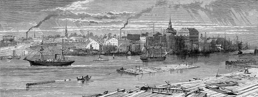 View of Savannah from the River, a wood engraving from a drawing by Harry Fenn, published 1872 in Picturesque America, D. Appleton & Company, New York, New York.